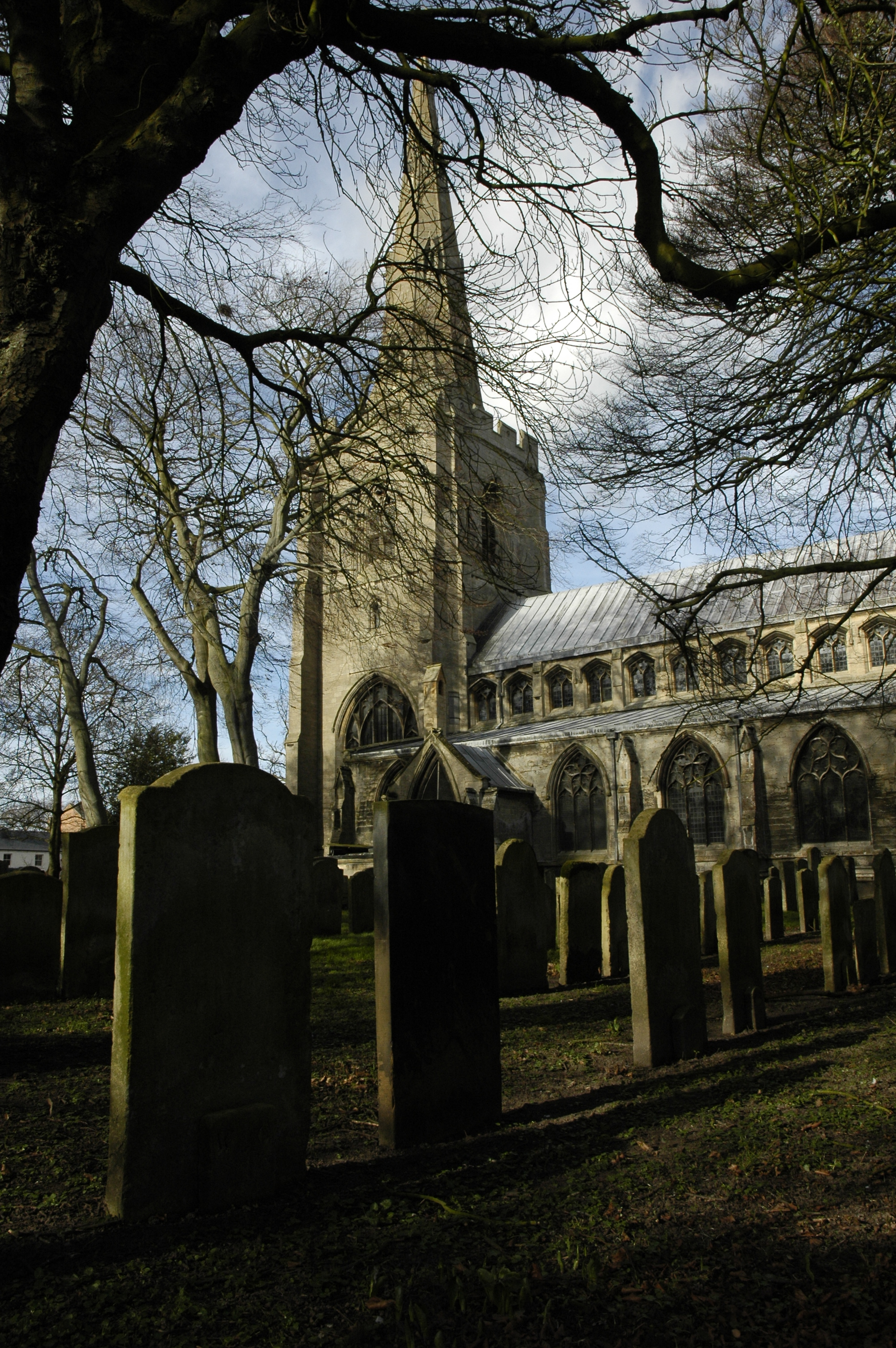 Gravestones in shadow in All Saints' parish churchyard, Holbeach, Lincolnshire, with the west tower and spire in the background